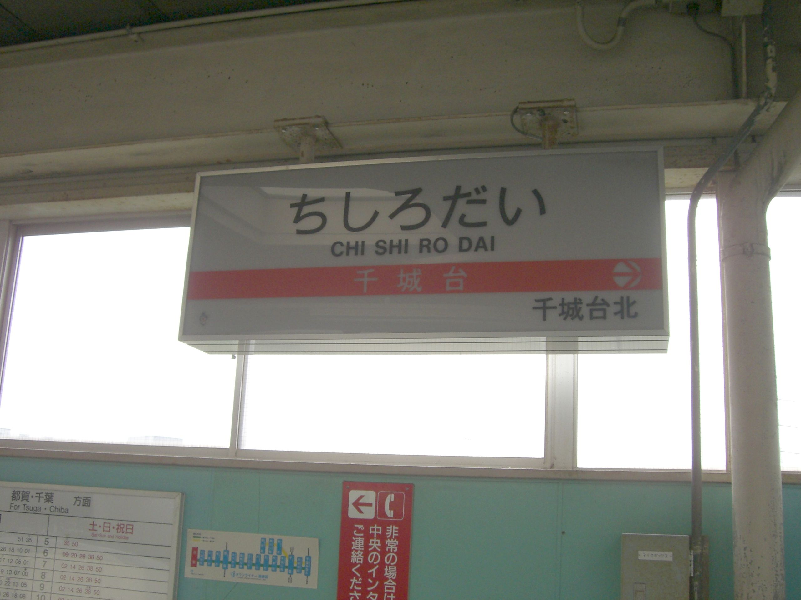 Chiba Urban Monorail Chishirodai Station